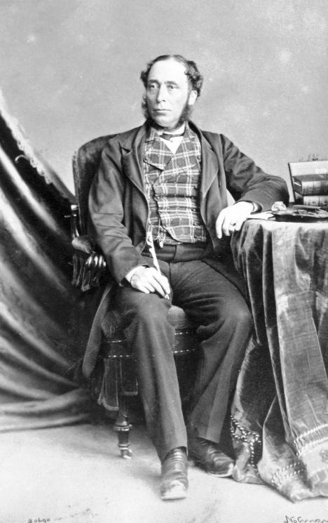 Photograph of Mayor Starnes, Montreal, QC, 1866, by William Notman (1826-1891), 1866. Silver salts on paper mounted on paper, Albumen process, 8 x 5 cm